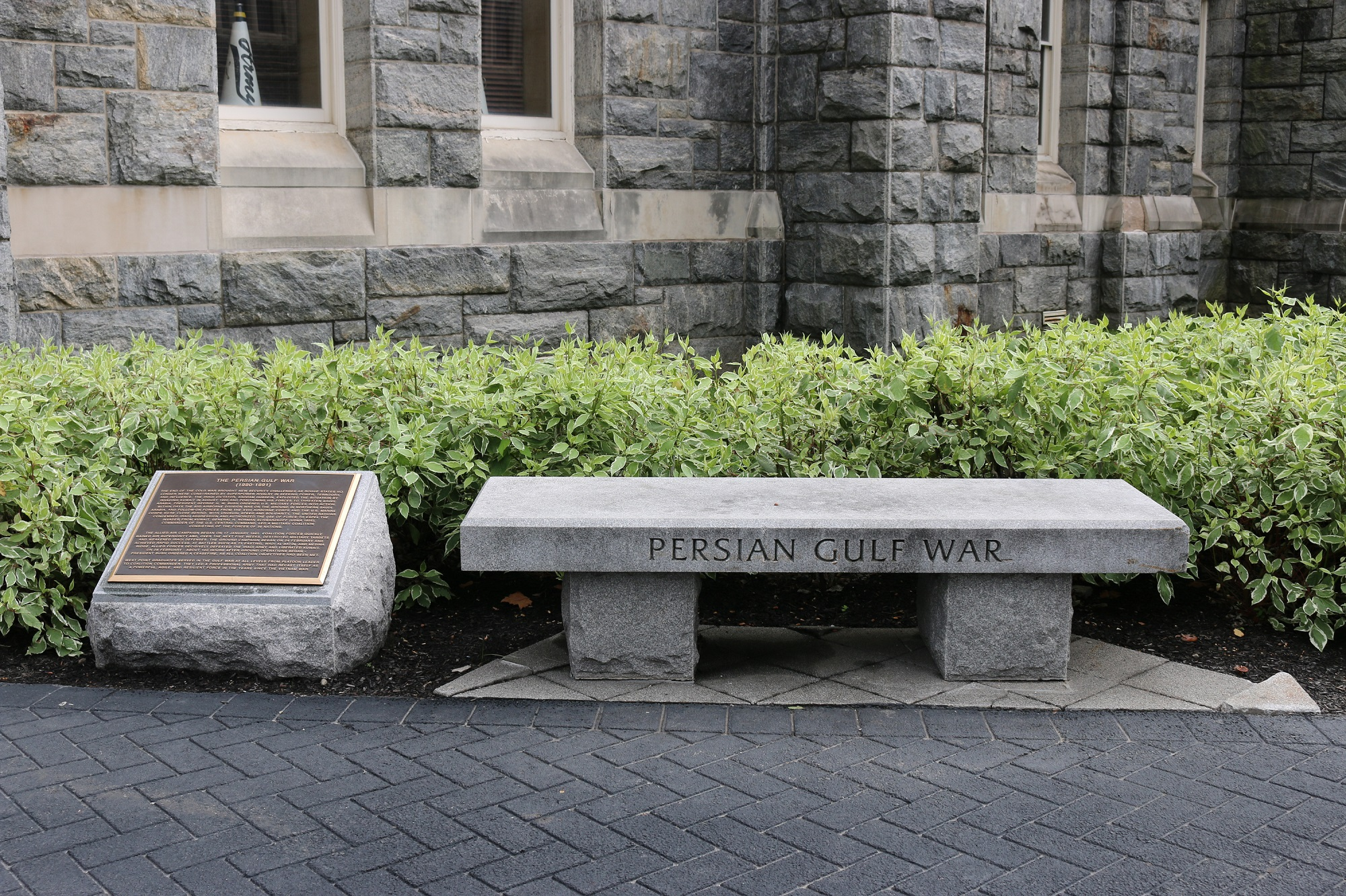 Persian Gulf War commemorative plaque - US Military Academy - West Point -- Photo: Persian Dutch Network